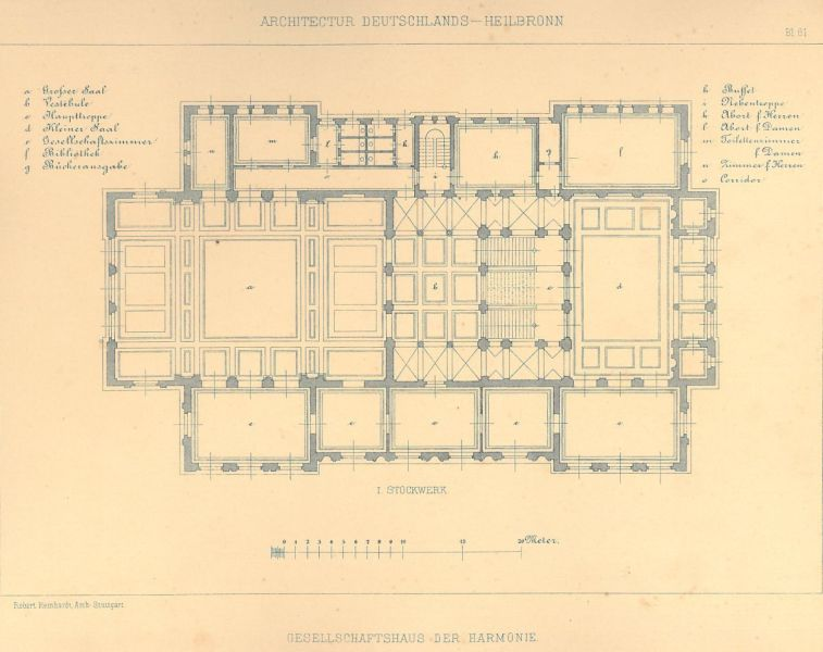 Alte Harmonie in Heilbronn, Entwurf von Robert von Reinhardt (* 11. Januar 1843 in Neuffen; † 5. Mai 1914 in Stuttgart) , Obergeschoss